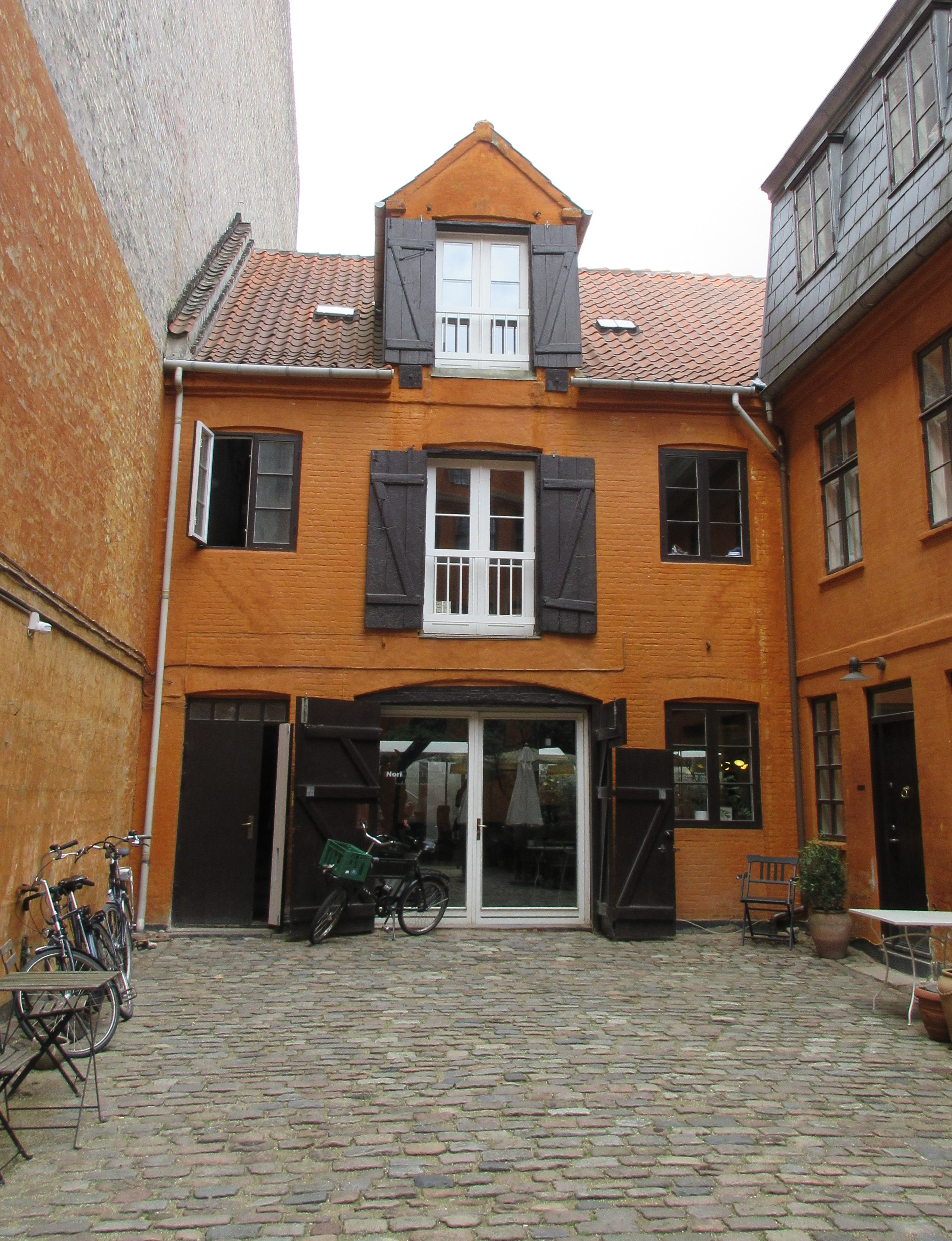 The building to the rear of the Collin House at Amaliegade 9 in Copenhagen, Denmark